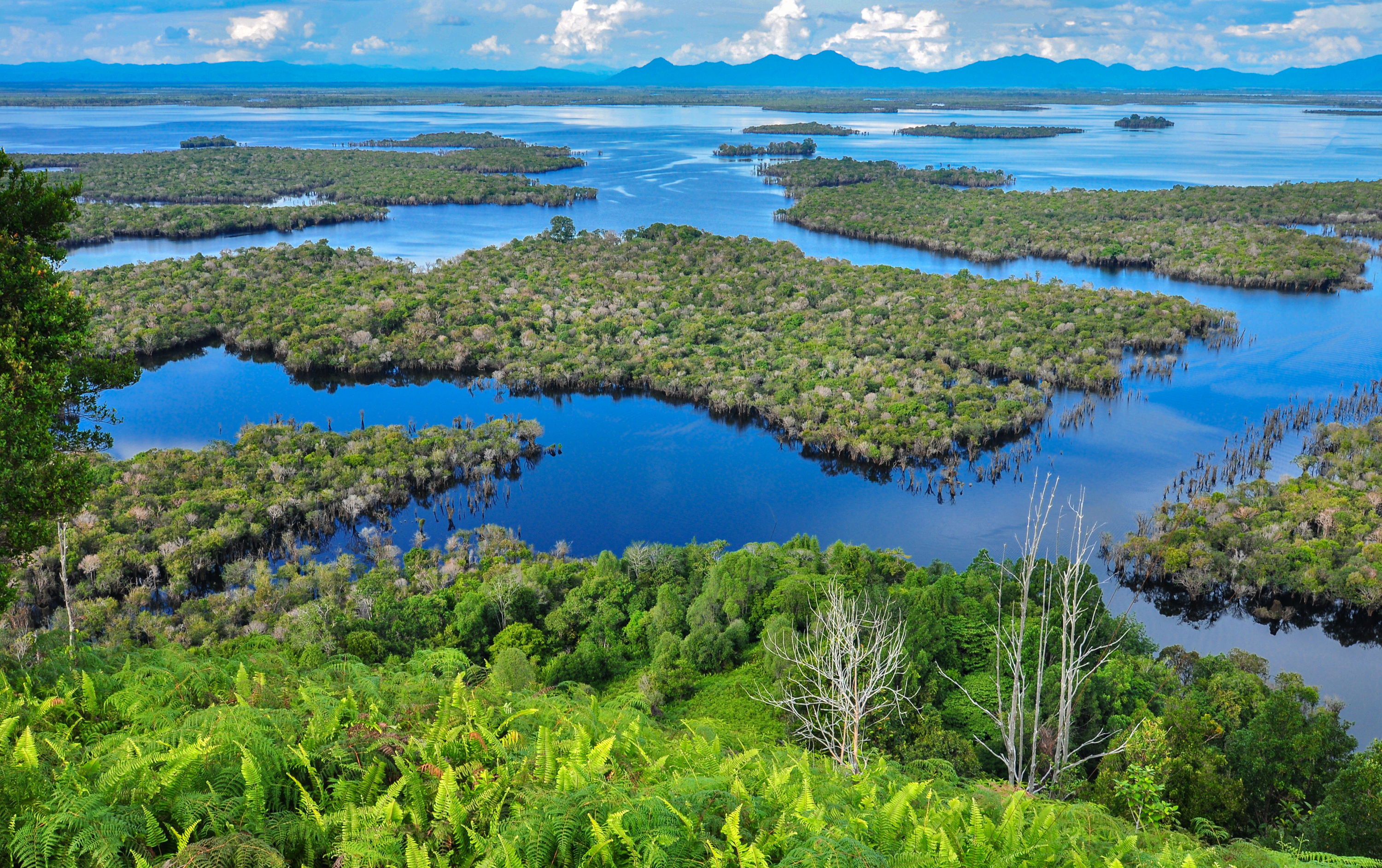 The Danau Sentarum National park is national park protecting area and the bigest wetland in Indonesia, located in Nanga Leboya Village, Kapuas Hulu, West Kalimantan